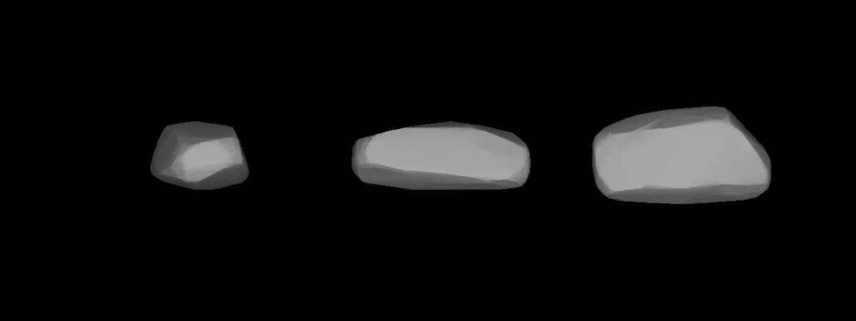 A three-dimensional model of 1111 Reinmuthia that was computed using light curve inversion techniques.